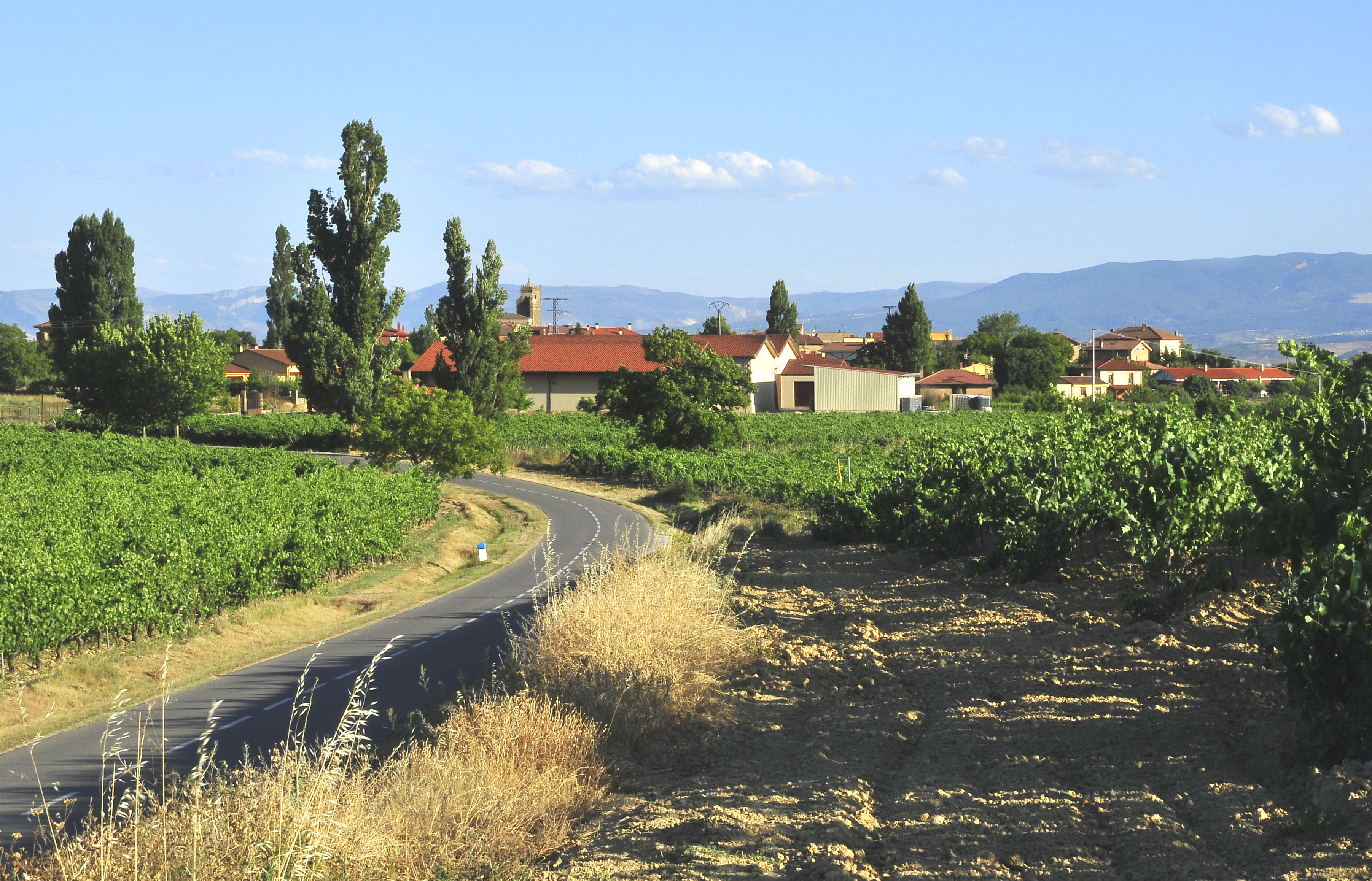 The village and its surroundings. Páganos, Laguardia, Basque Country, Spain